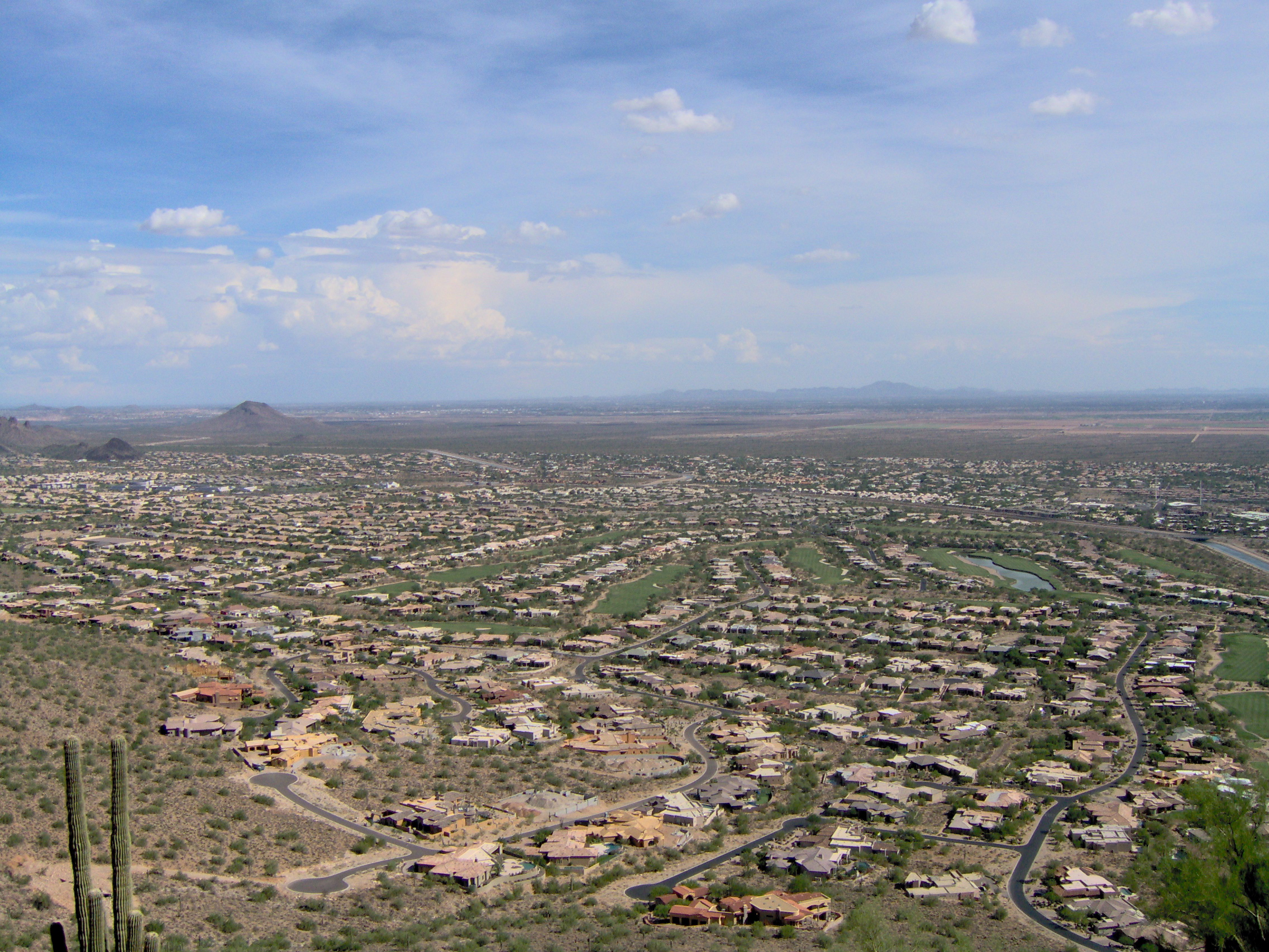 Taken by myself atop an unnamed hill northwest of my home in Scottsdale, Arizona.